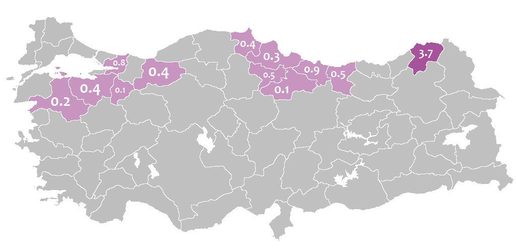 This map shows the distribution of people who spoke Georgian in 1965's Turkey.